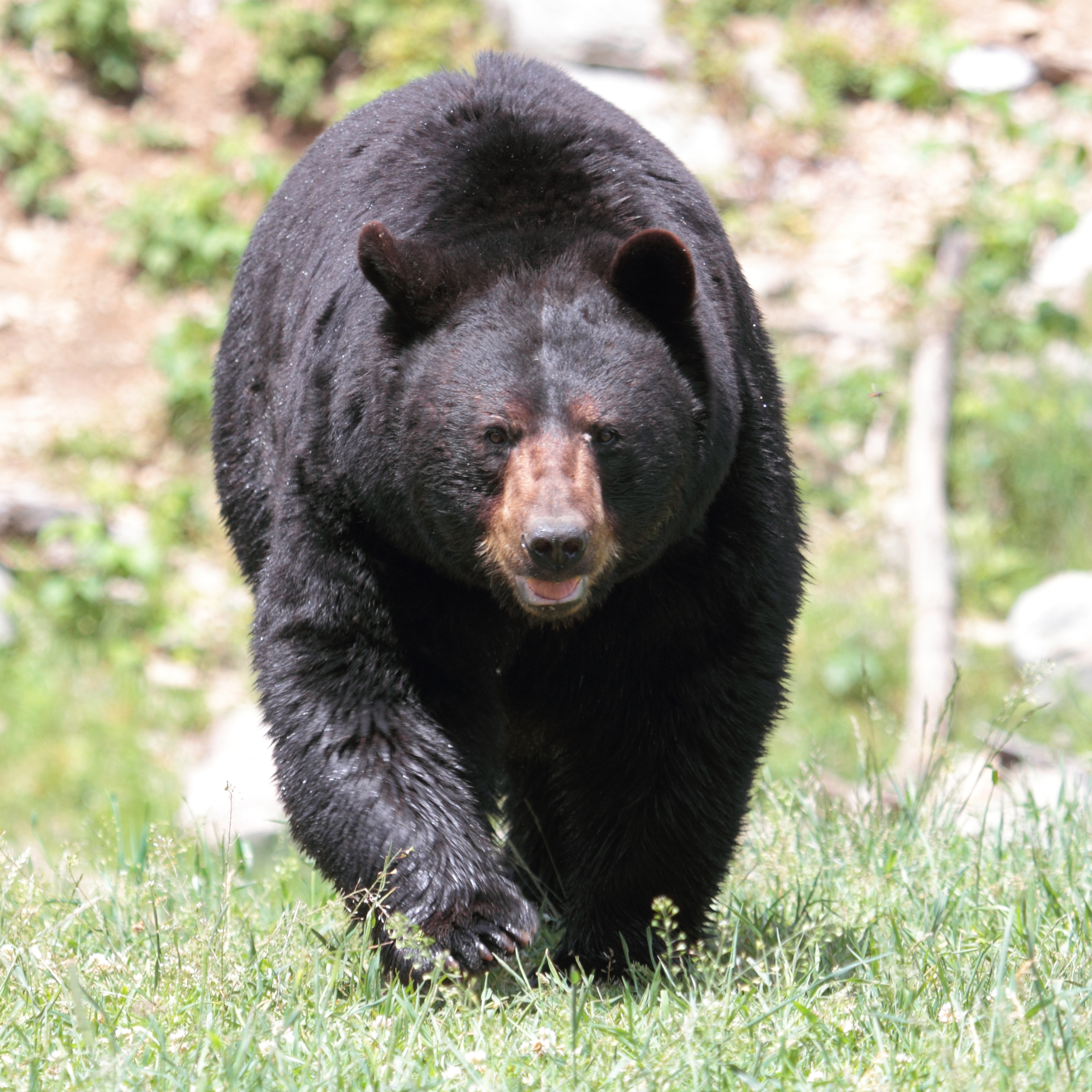 American black bear, Parc Omega, Quebec, Canada